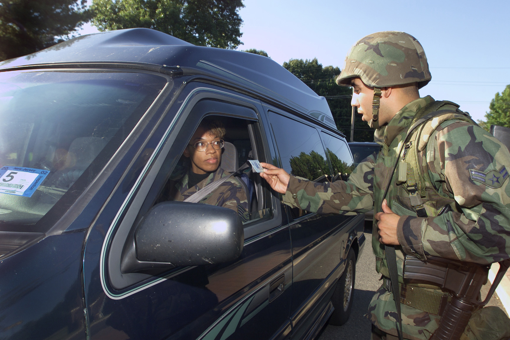 Airman first class Ricardo DeLaCruz of the 305 Security Forces Squadron, McGuire Air Force Base, New Jersey checks identification at McGuire's 24 Hour gate in response to the recent terrorist attack on the United States of America on September 11, 2001.